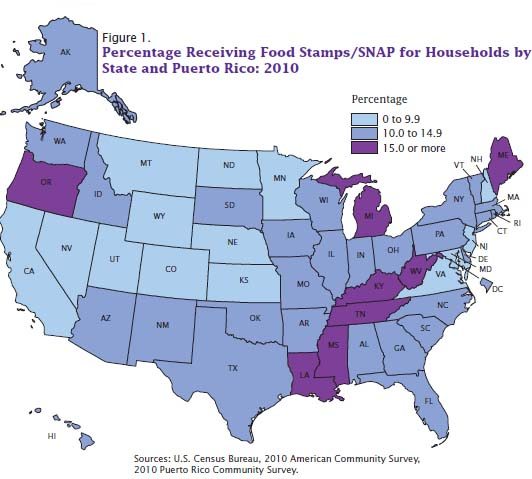 Percentage Receiving Food Stamps/SNAP for Households by State and Puerto Rico 2010